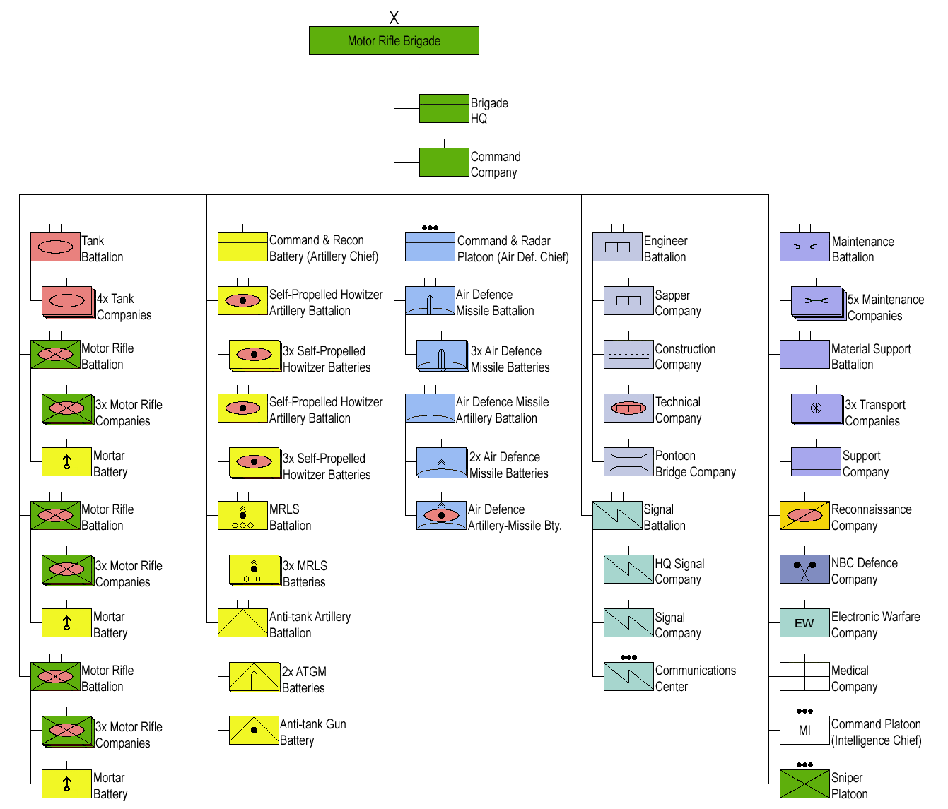 Russian Ground Forces Motor Rifle Brigade Standardized Structure 2009